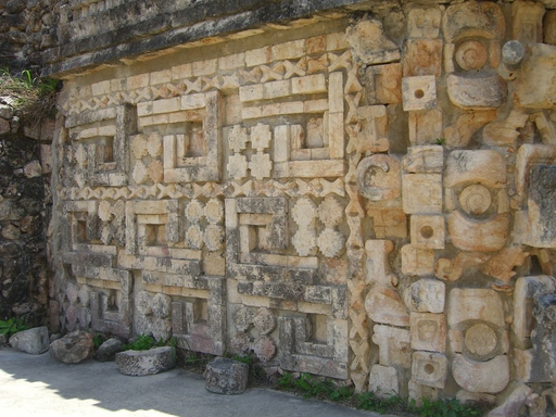 Sculptured Walls of the Temple atop the Great Pyramid at Uxmal, Yucatán